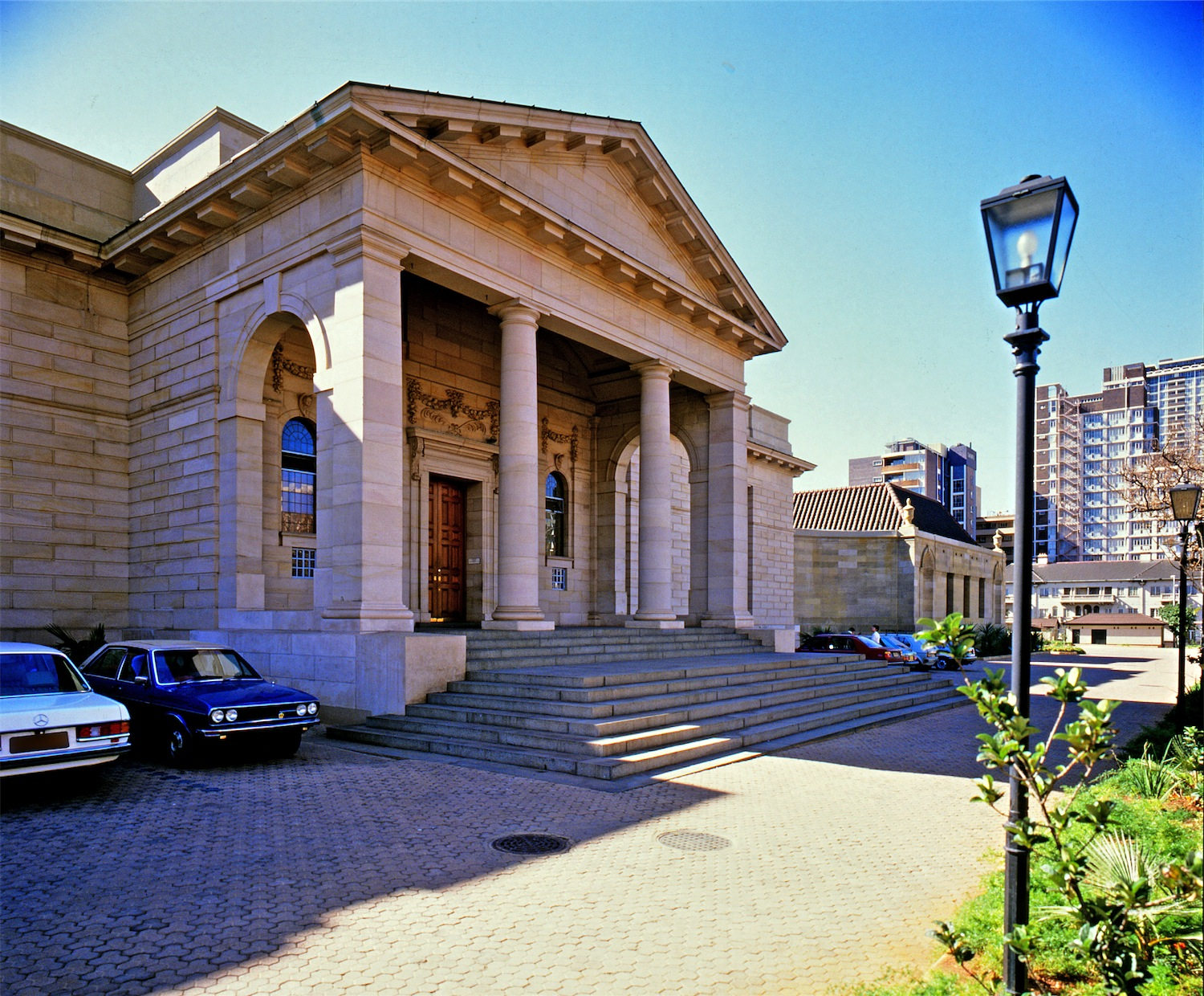 This media shows a South African Protected Site with SAHRA file reference 9/2/228/0069.